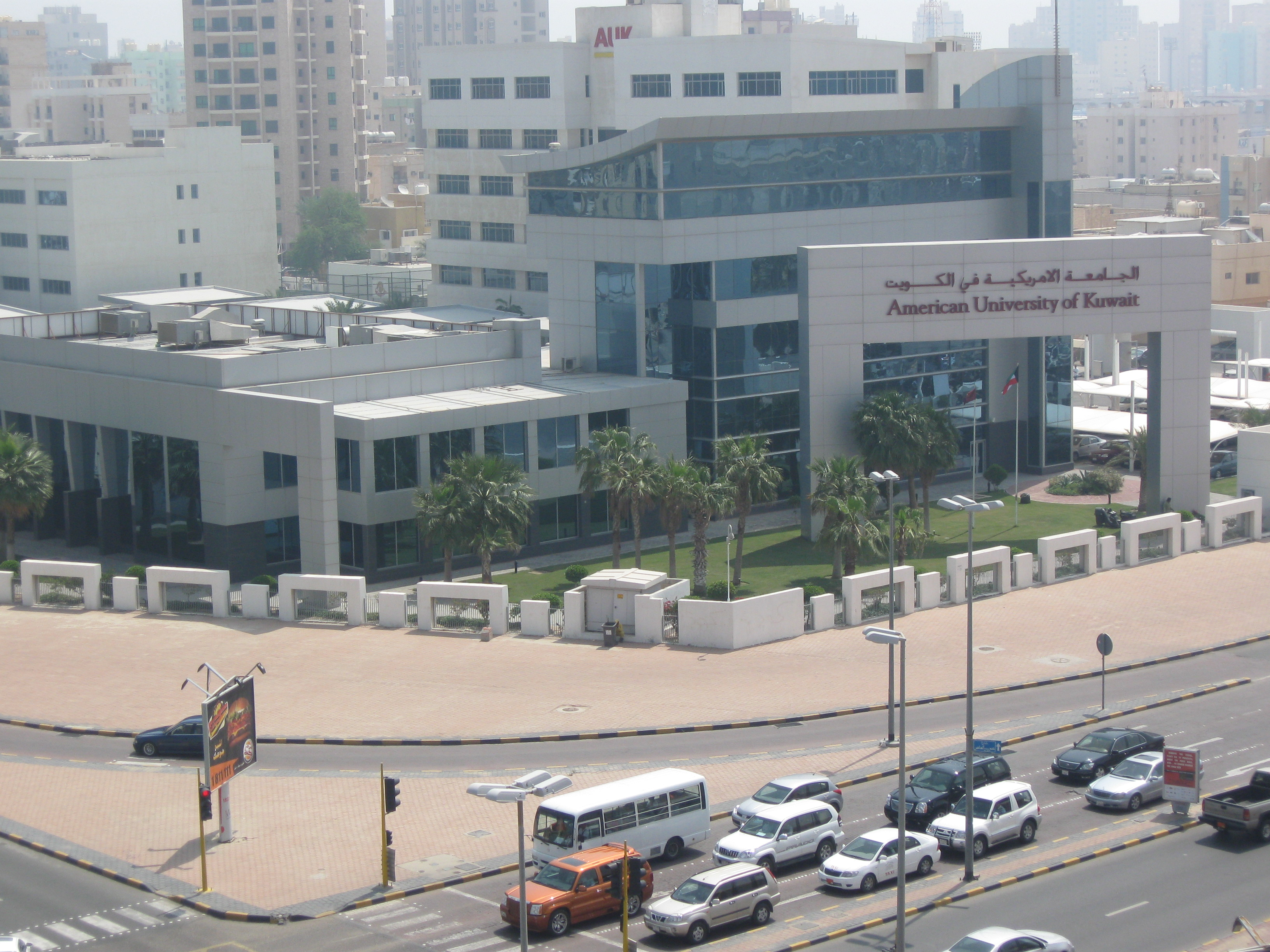 The American University of Kuwait, Kuwait City, Kuwait